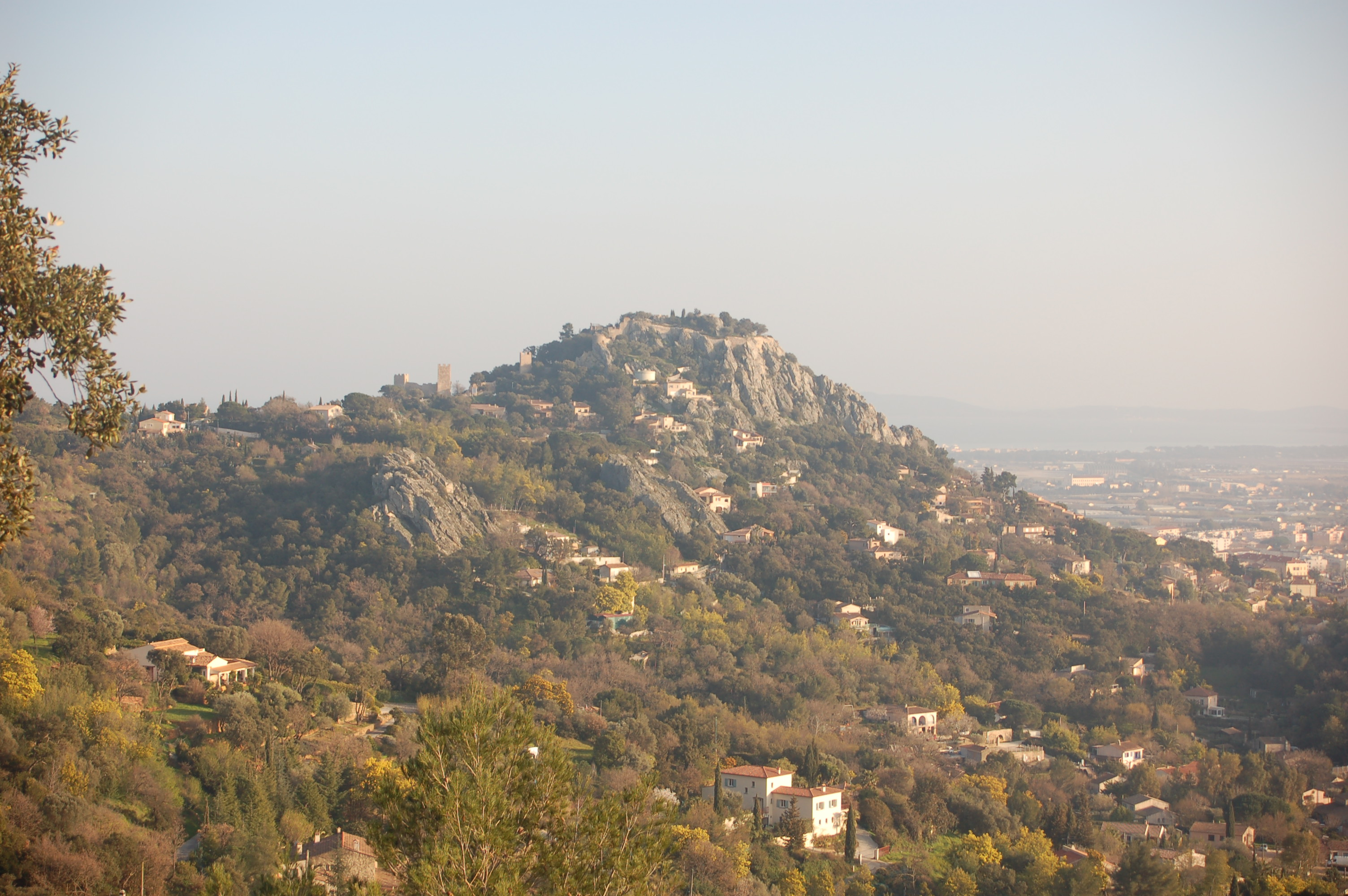 The hill of Casteou in Hyères, in the Var.